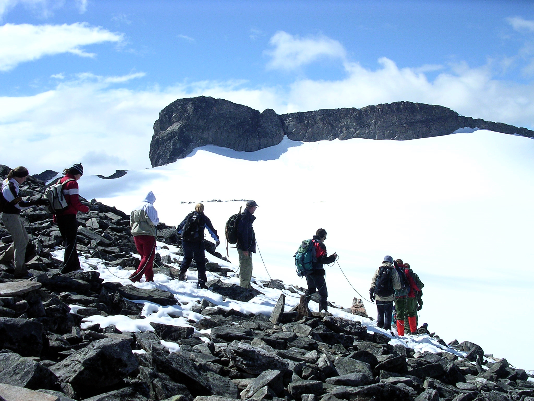 Vesle Galdhøpiggen seen from a moraine near the glacier Piggbreen in east.